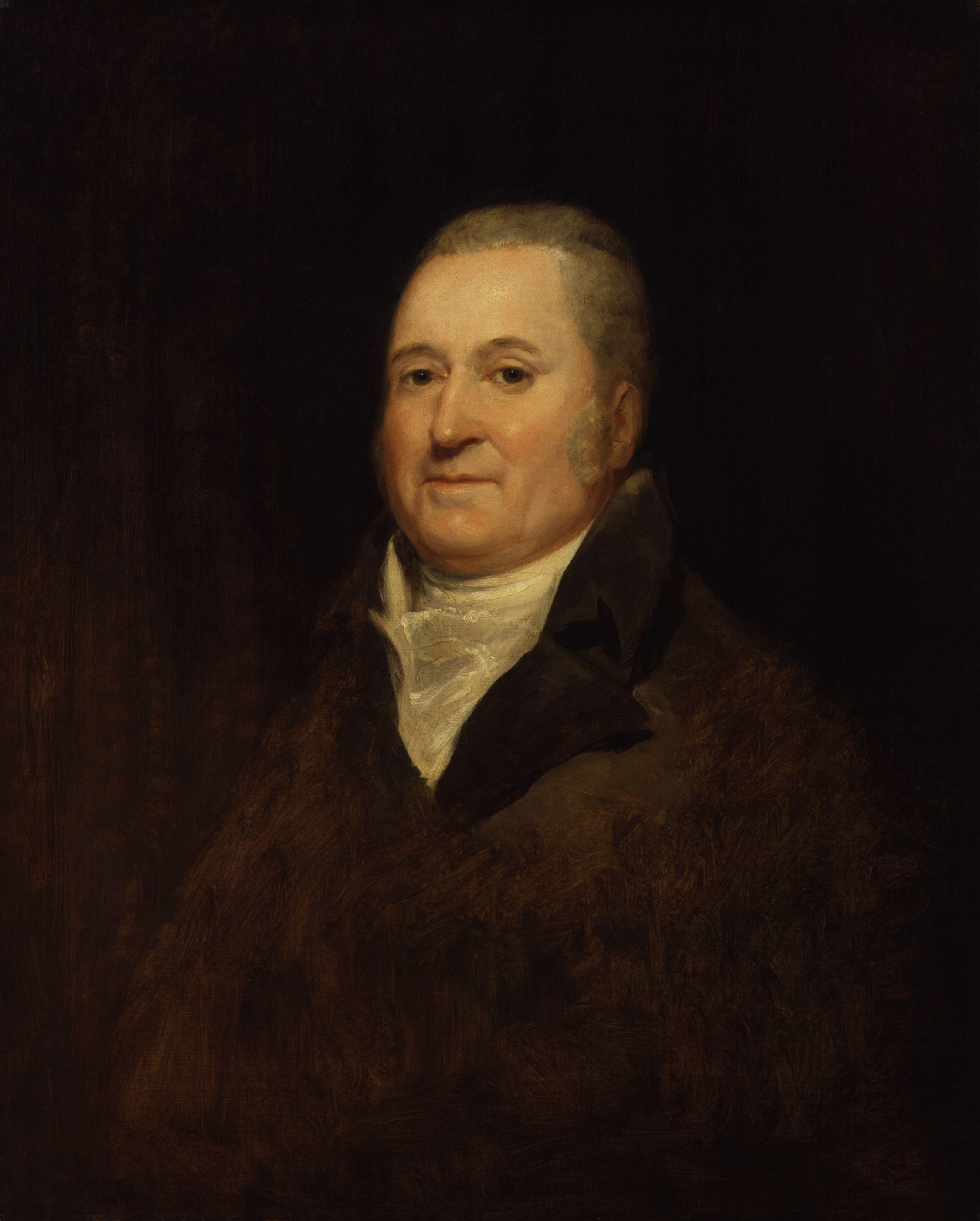 Henry Hervey Baber, by unknown artist. All images in this batch have an unknown author, but there is strong evidence it was first published before 1923 (based mainly on the NPG's estimated date of the work).